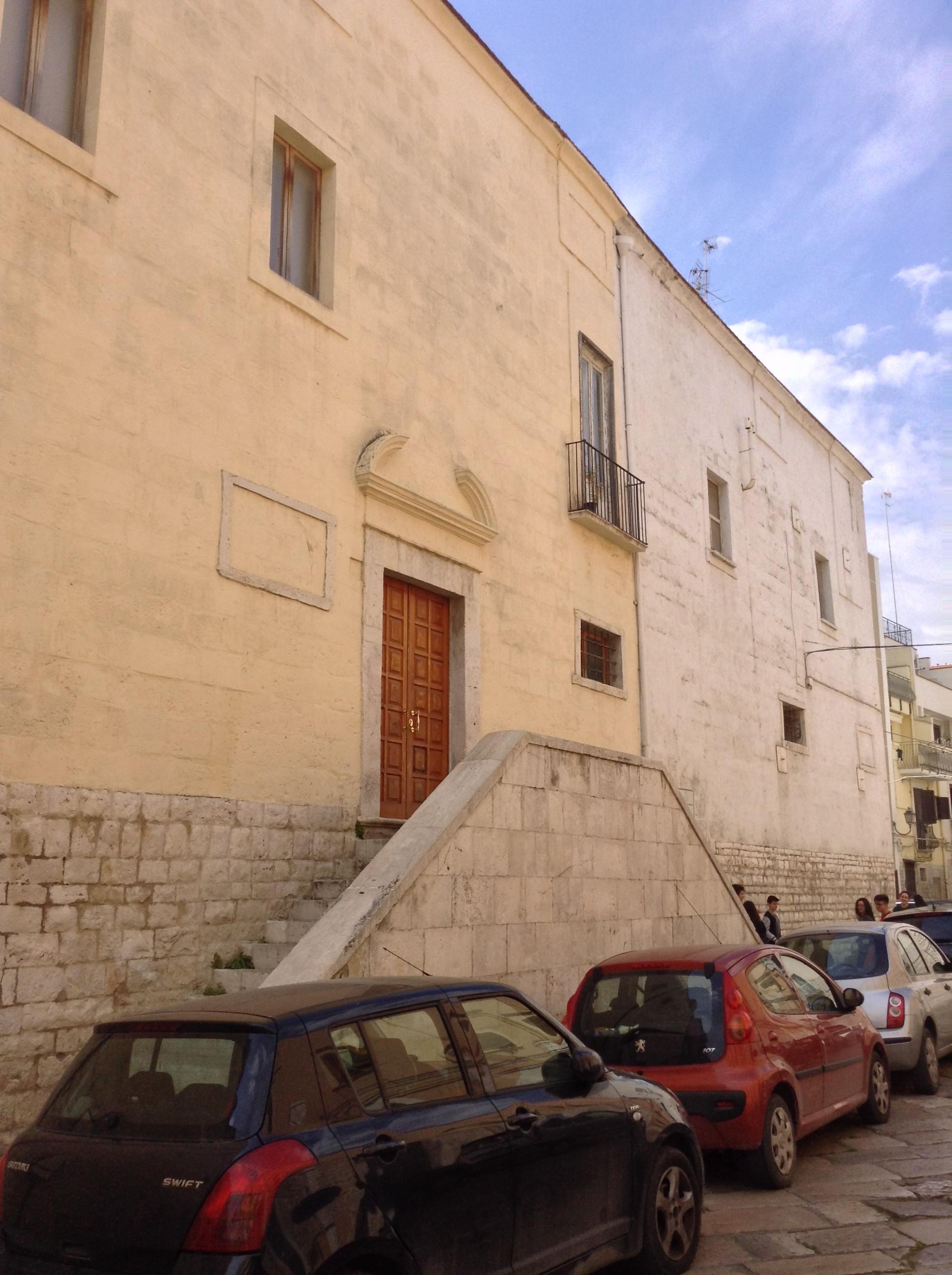 Greek church Santa Maria degli Angeli